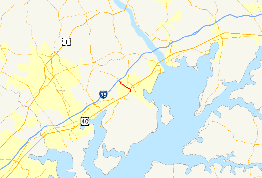 Map of Maryland Route 132